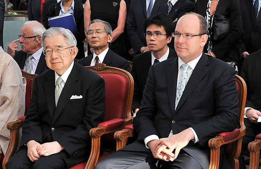 Prince Albert II, Prince Masahito, Princess Hanako and Yukiya Amano, Director General of the International Atomic Energy Agency, attended the opening ceremony of the art exhibition "Kyoto-Tokio" at the Grimaldi Forum in Larvotto Ward, Monaco City on July 13, 2010.